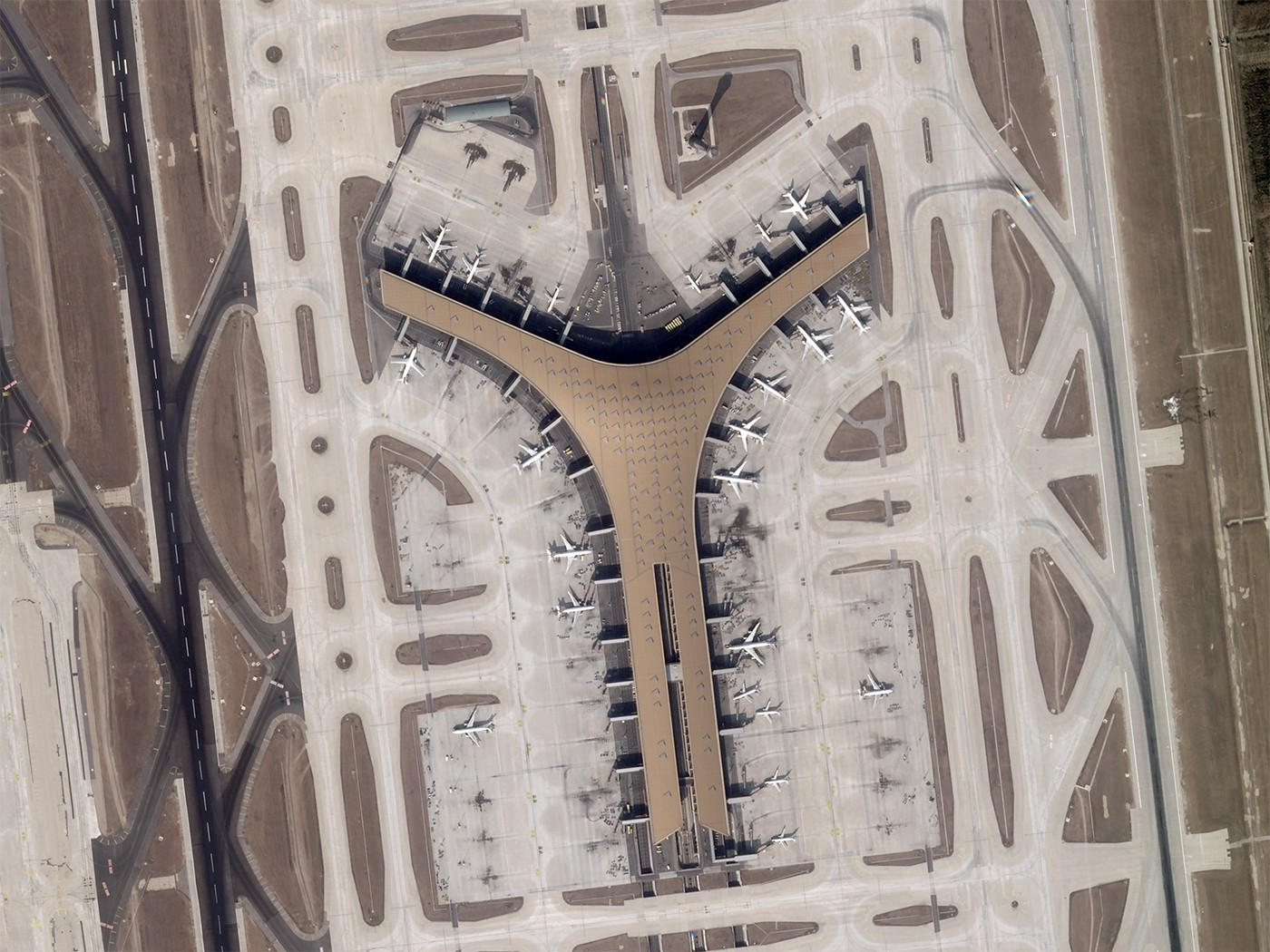 satellite image of Beijing Capital International Airport on 18 February 2018.